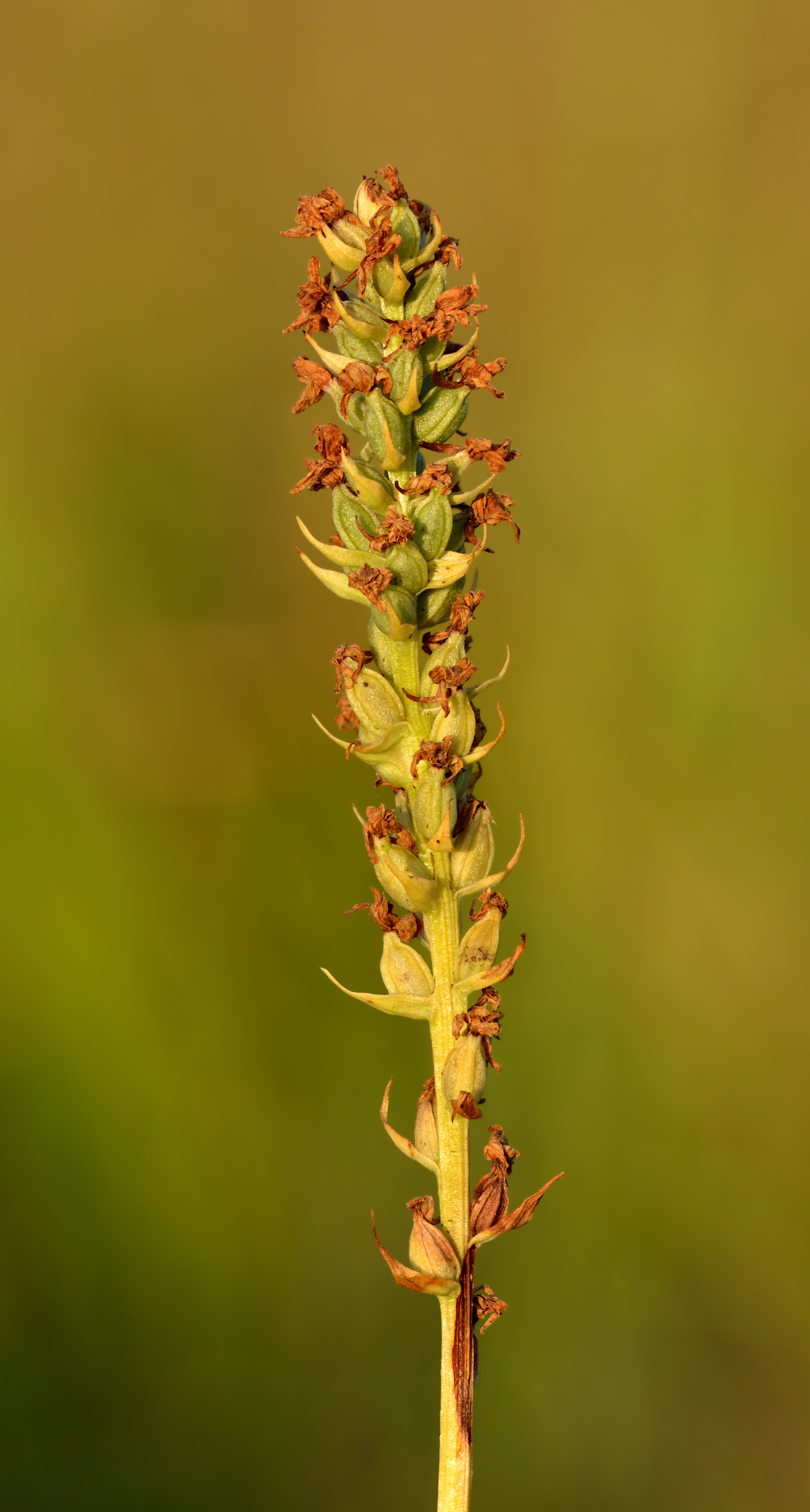 Infructescence of short spurred fragrant orchid